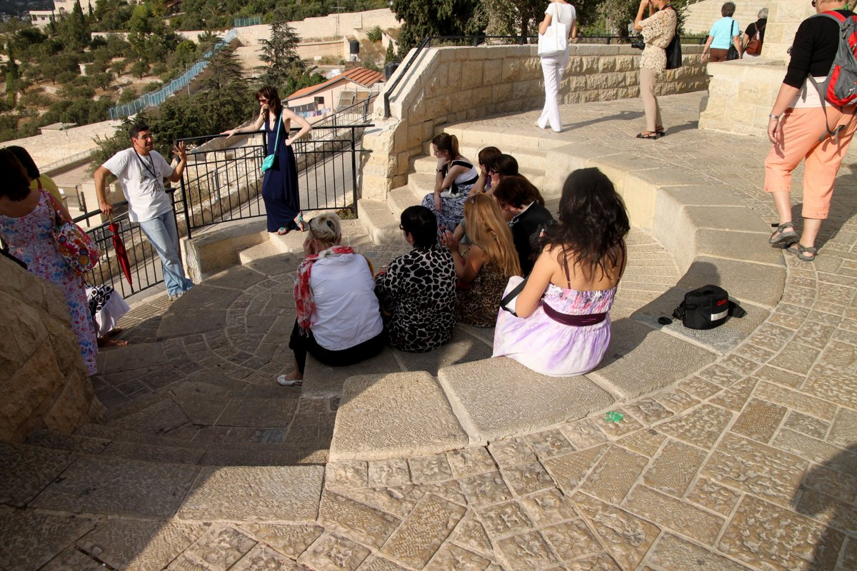 Group of tourist in Jerusalem